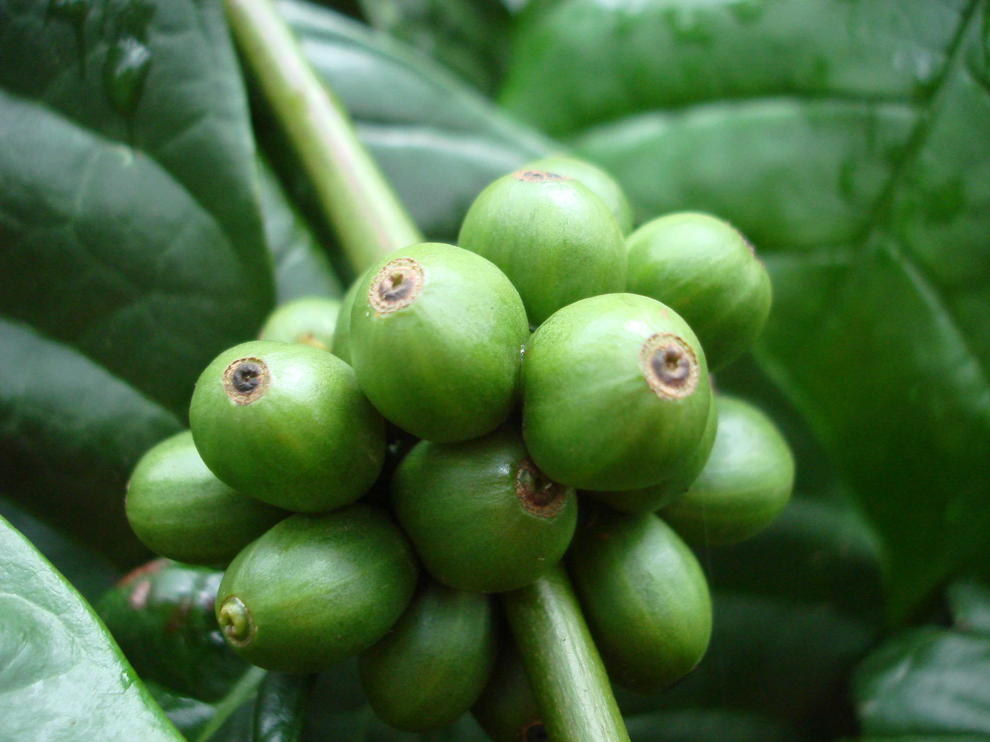 Unripe berries of the species Coffea canephora.